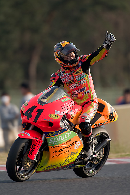 Youichi Ui at 2009 MFJ SUPERBIKE Rd1